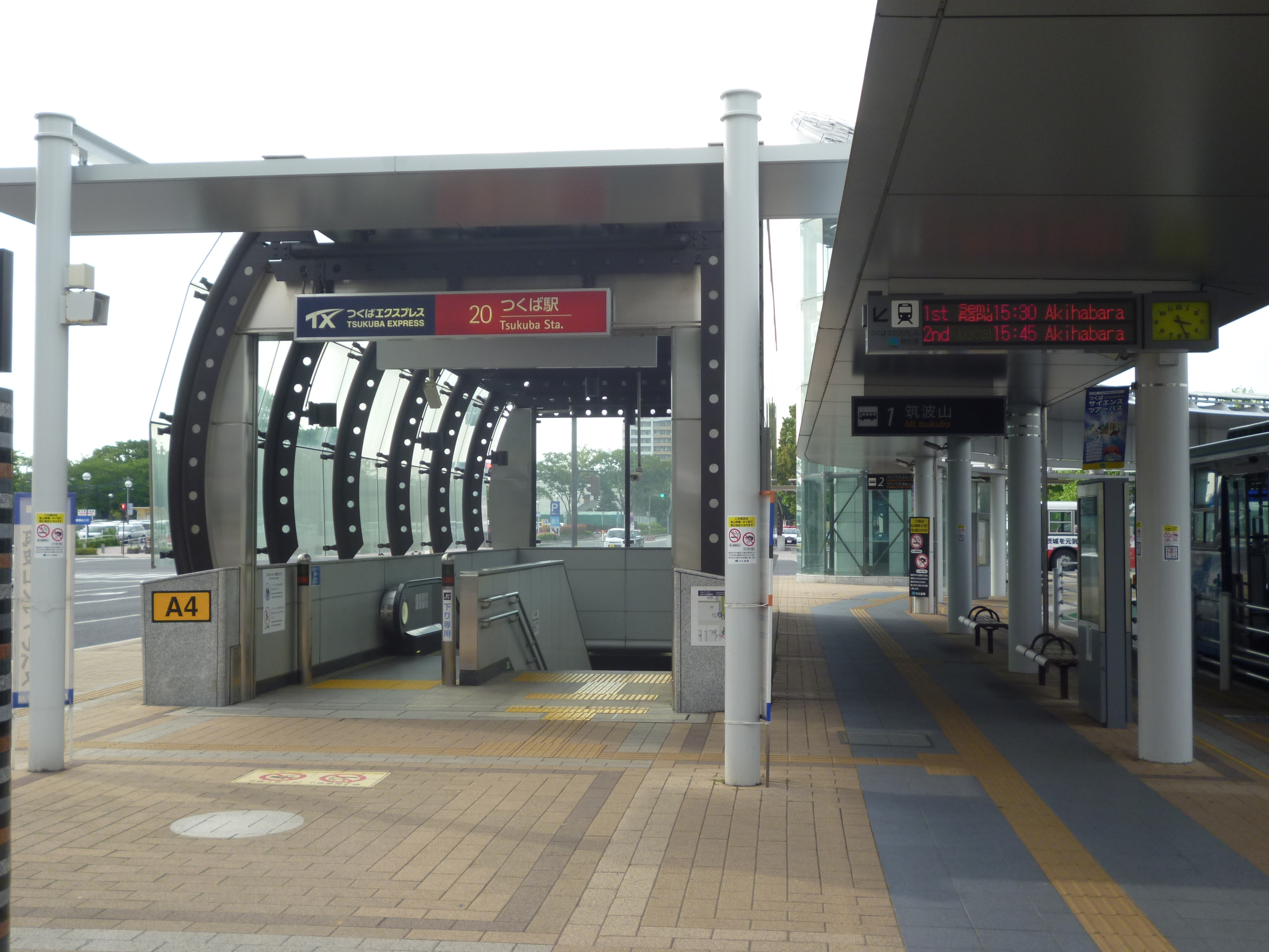 A4 exit of Tsukuba Station